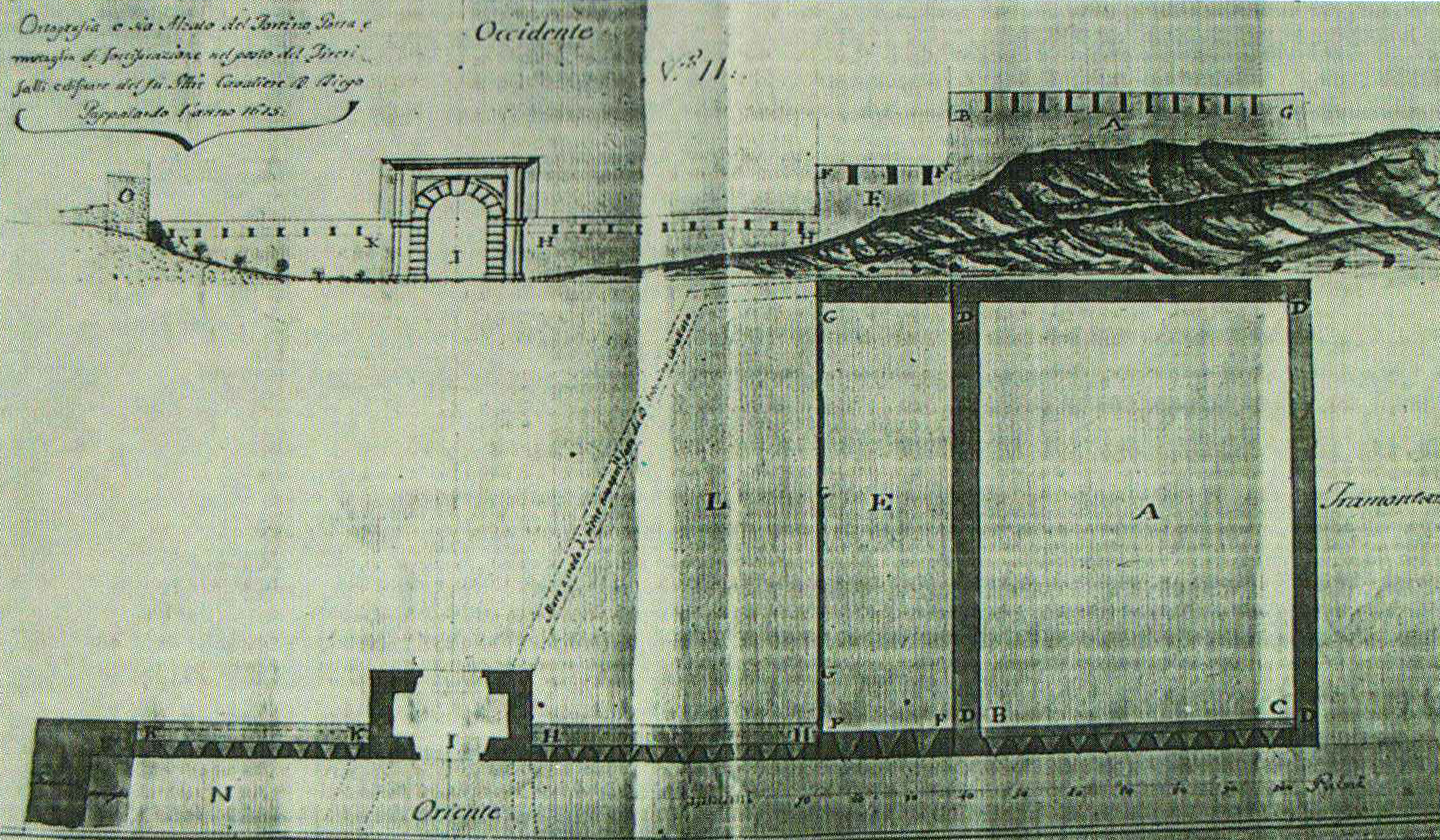 The project of the Fort of Fleri built by don Diego Pappalardo